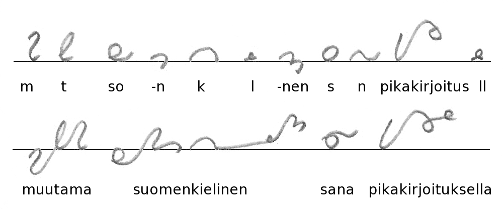 Finnish Neovius-Nevanlinna shorthand example: characters and how they are combined into words. "muutama suomenkielinen sana pikakirjoituksella" = "a few Finnish words in shorthand".